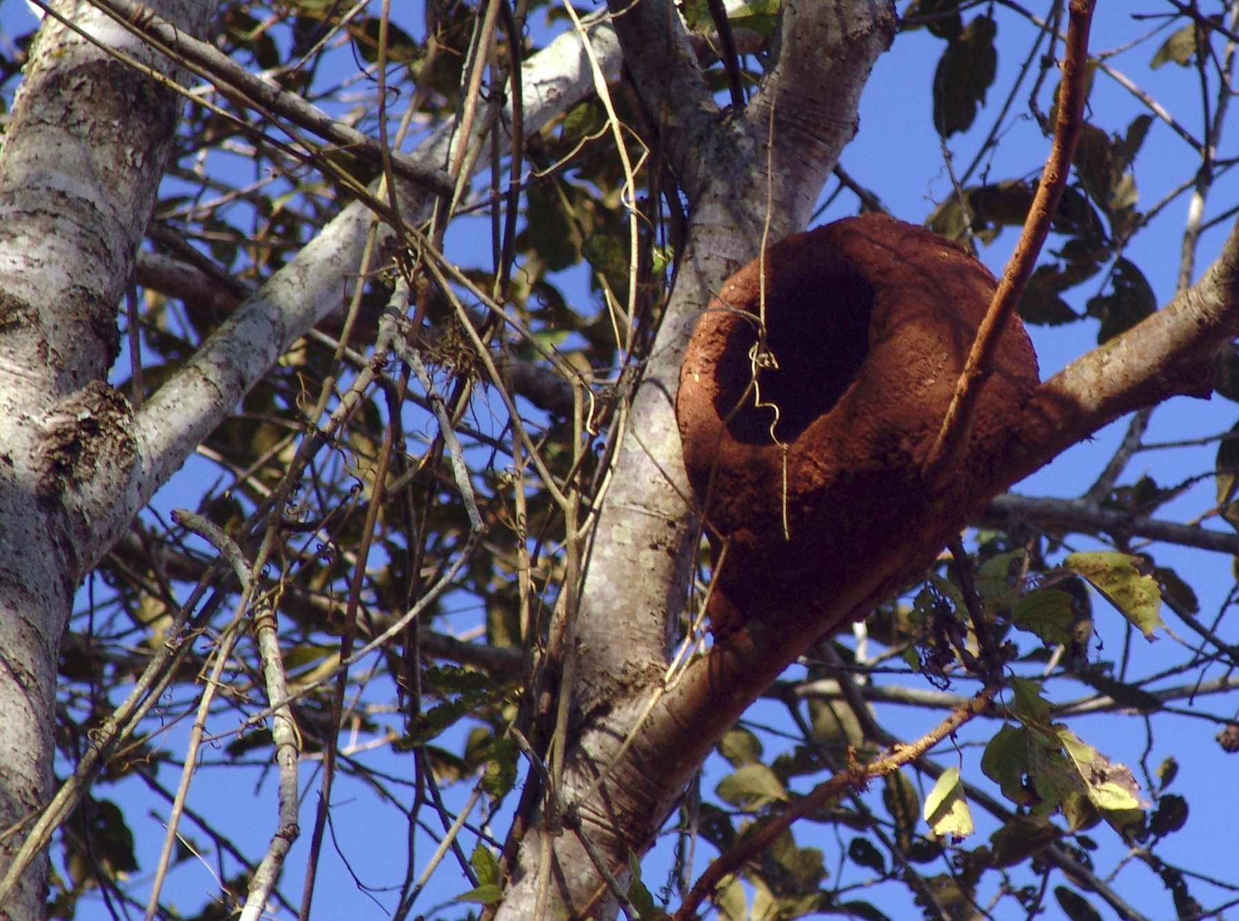 Furnarius rufus;; clay nest in Avare, São Paulo, Brazil